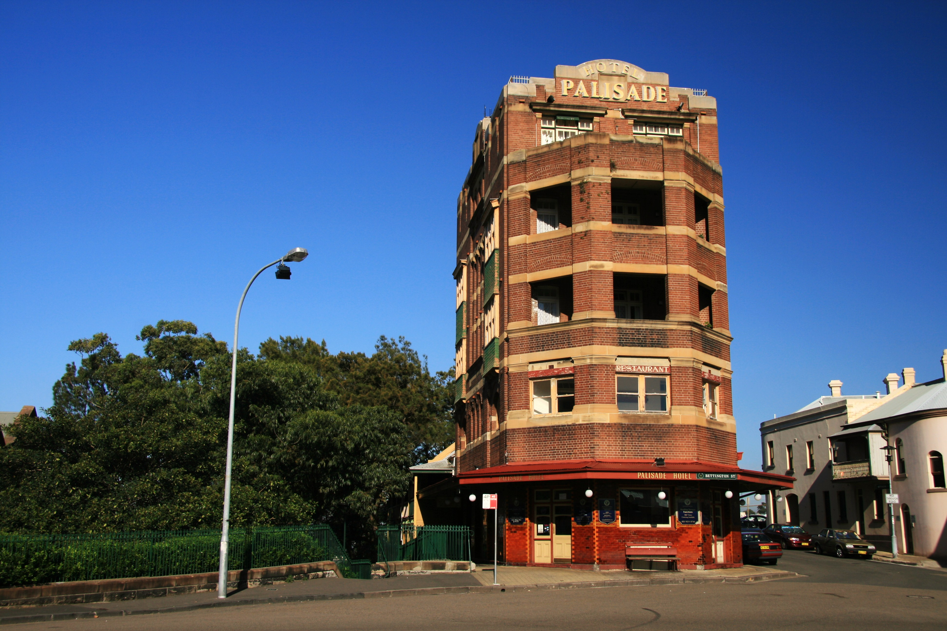 The Palisade Hotel at Millers Point in Sydney. This is one of my favourite old style pubs in the inner Sydney City area with great food (the restaurant is brilliant and lot of people don't even know it exists...also good for functions), basic but good accomodation (stayed here a few times and it has probably become my regular Sydney accomodation location), cold beer (always good)...and one heck of a view :)The Palisade Hotel, Millers Point